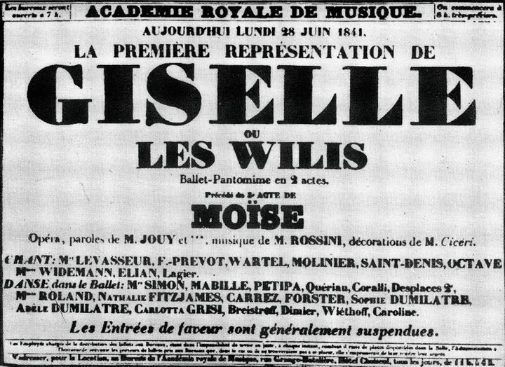 Poster announcing the first performance of Giselle.